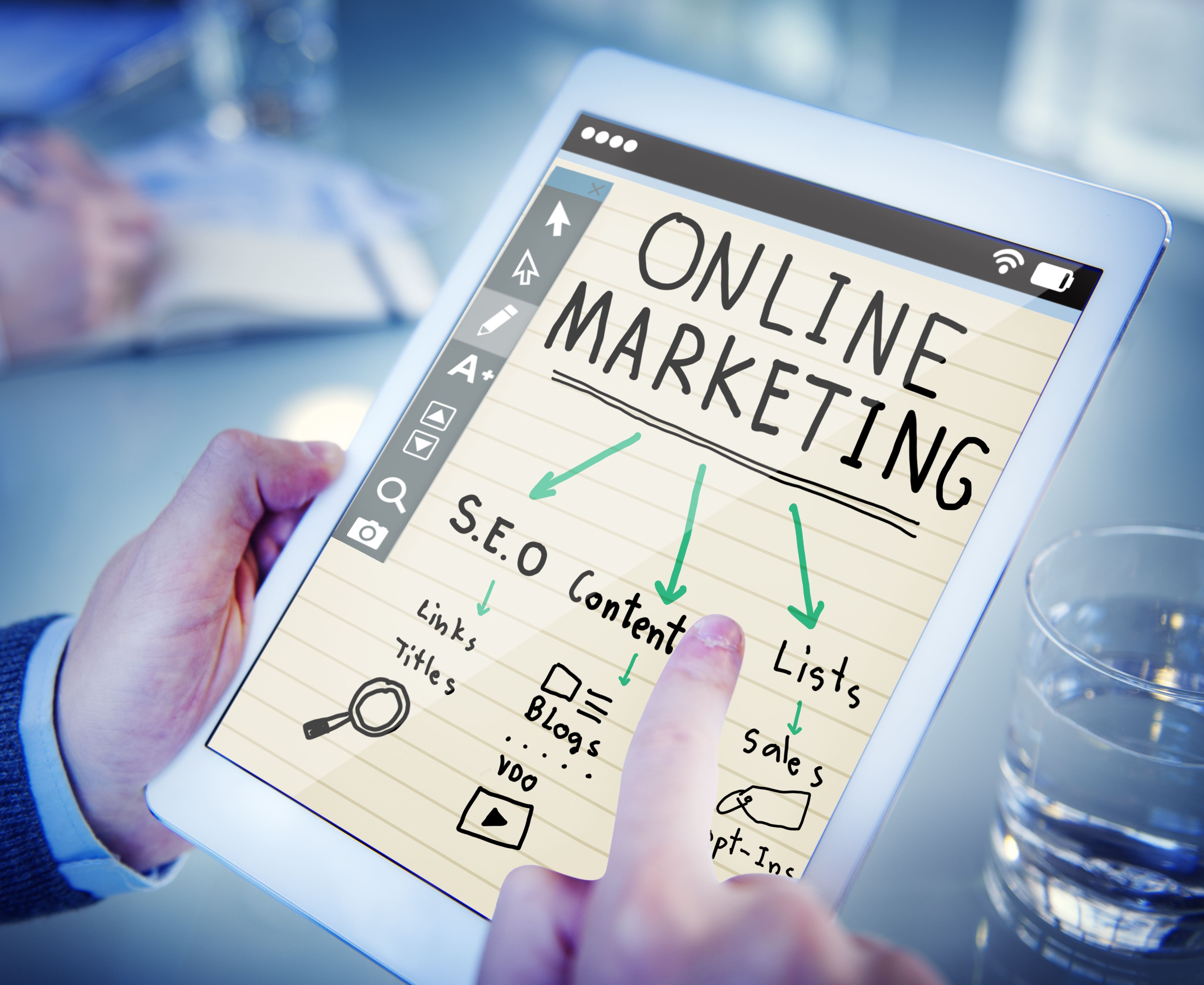 Online Marketing